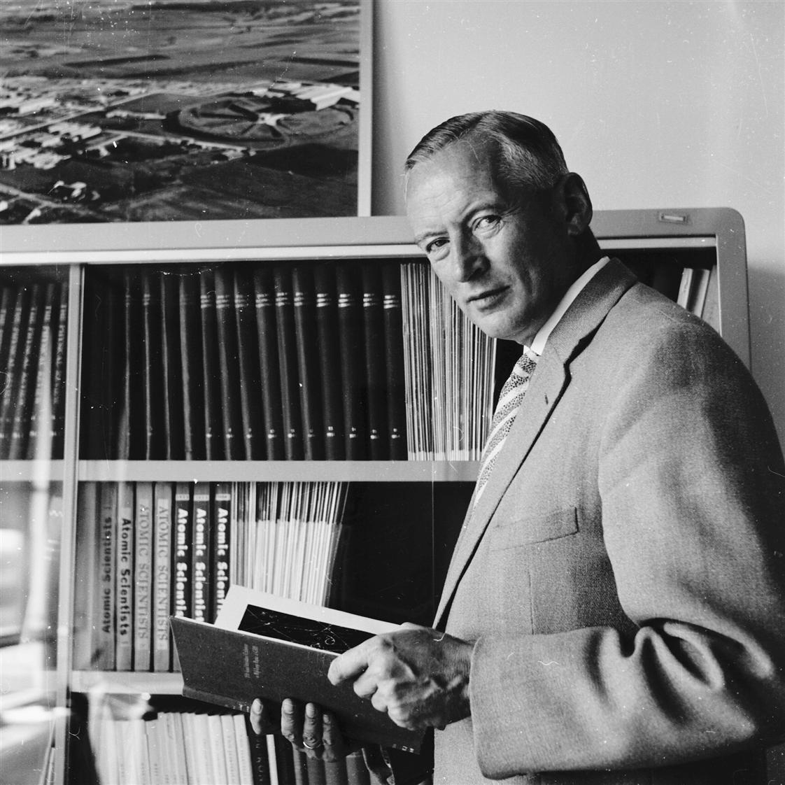 Professor Cornelis Jan Bakker, Director-General of CERN from Sep 1955 to Apr 1960